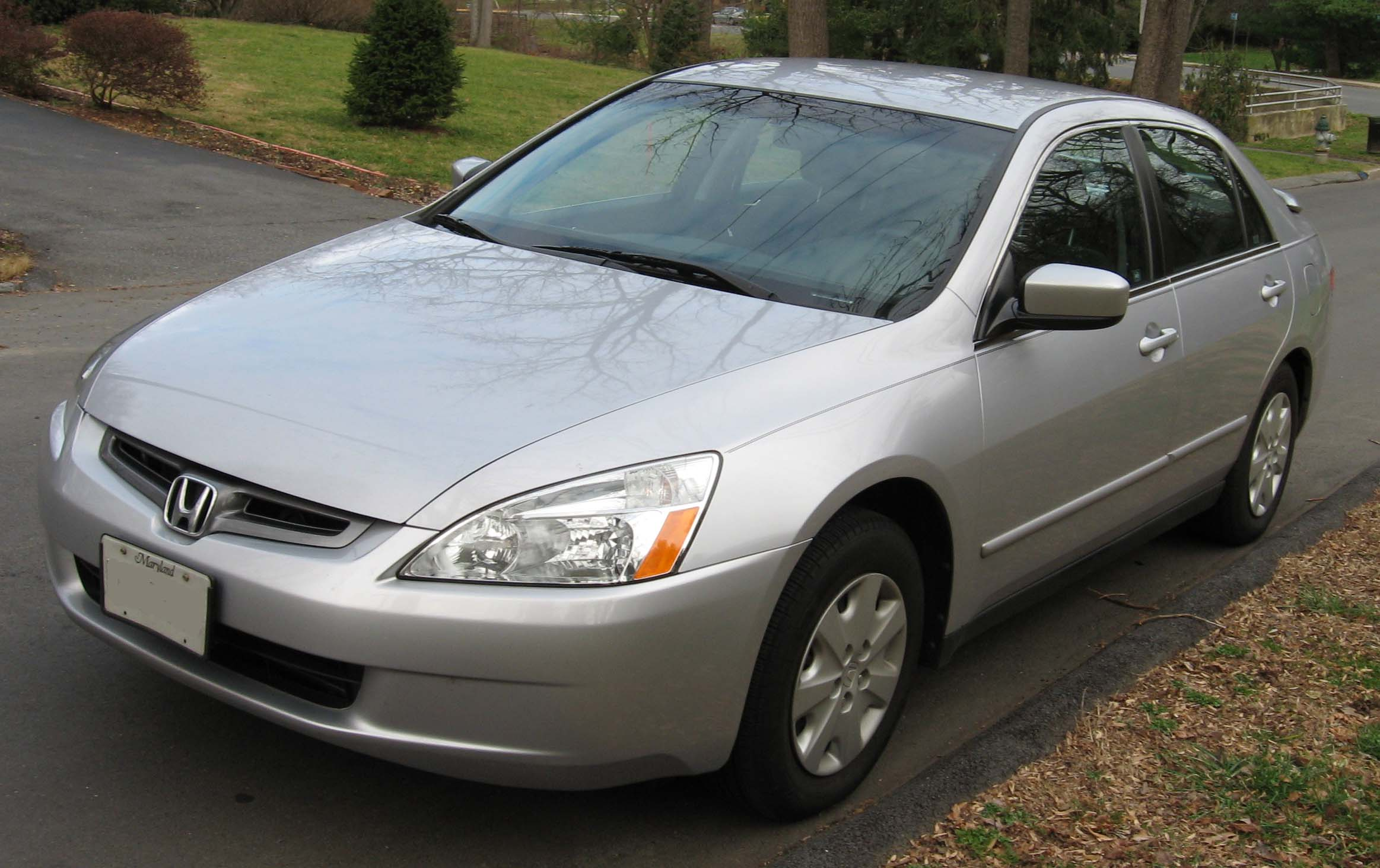 2003-2004 Honda Accord photographed in USA.